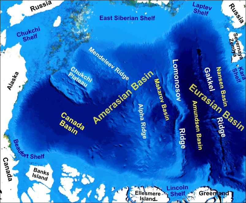 Main bathymetric features of the Arctic Ocean, taken mainly from Weber 1983 'Maps of the Arctic Basin Sea Floor: A History of Bathymetry and its Interpretation' on a base of a screenshot taken from the Nasa WorldWind software